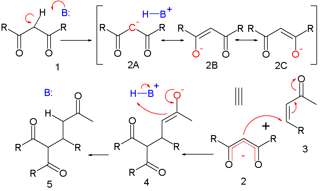 Michael_Reaction_Mechanism